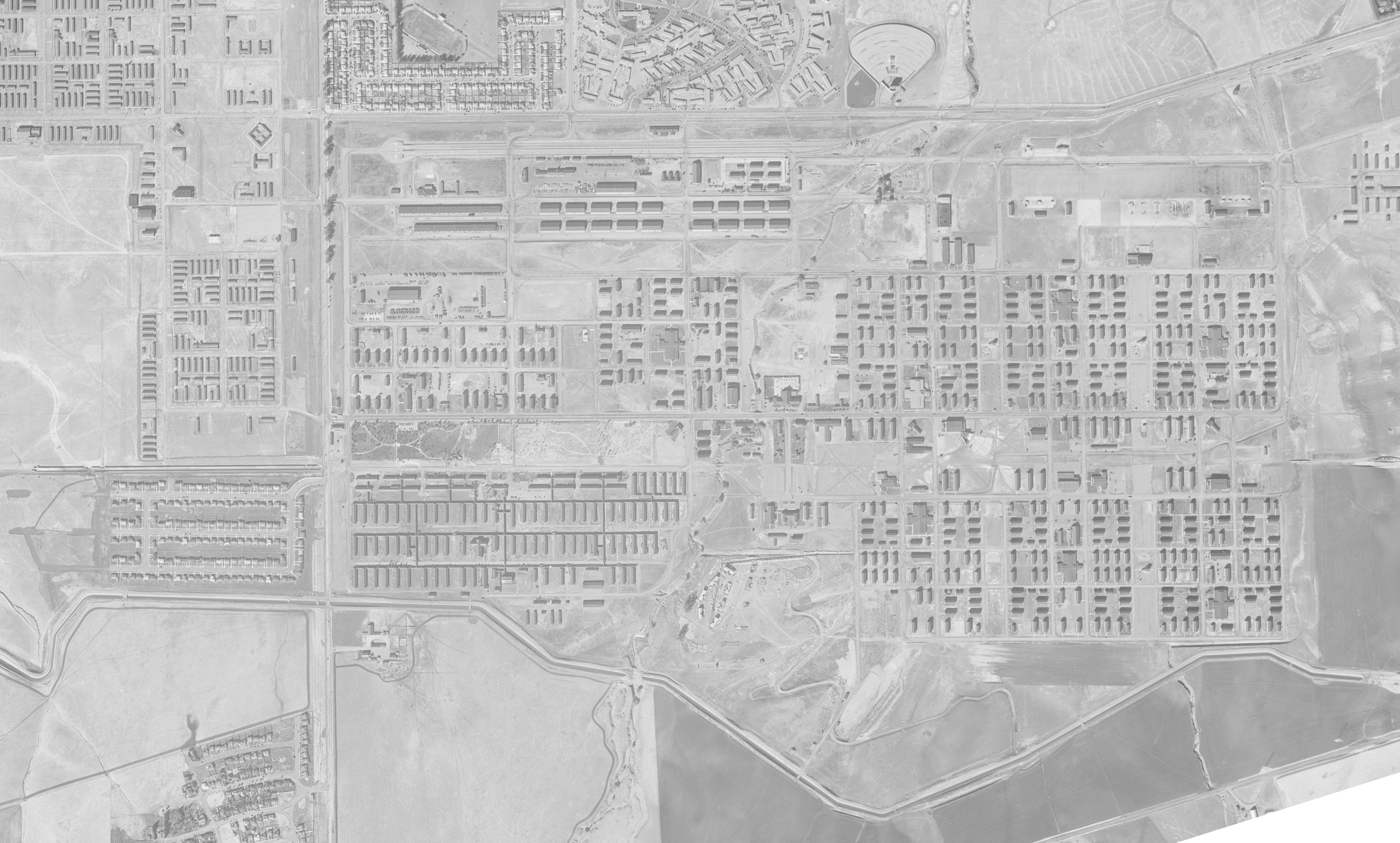 Aerial view of Camp Stoneman on October 11, 1947